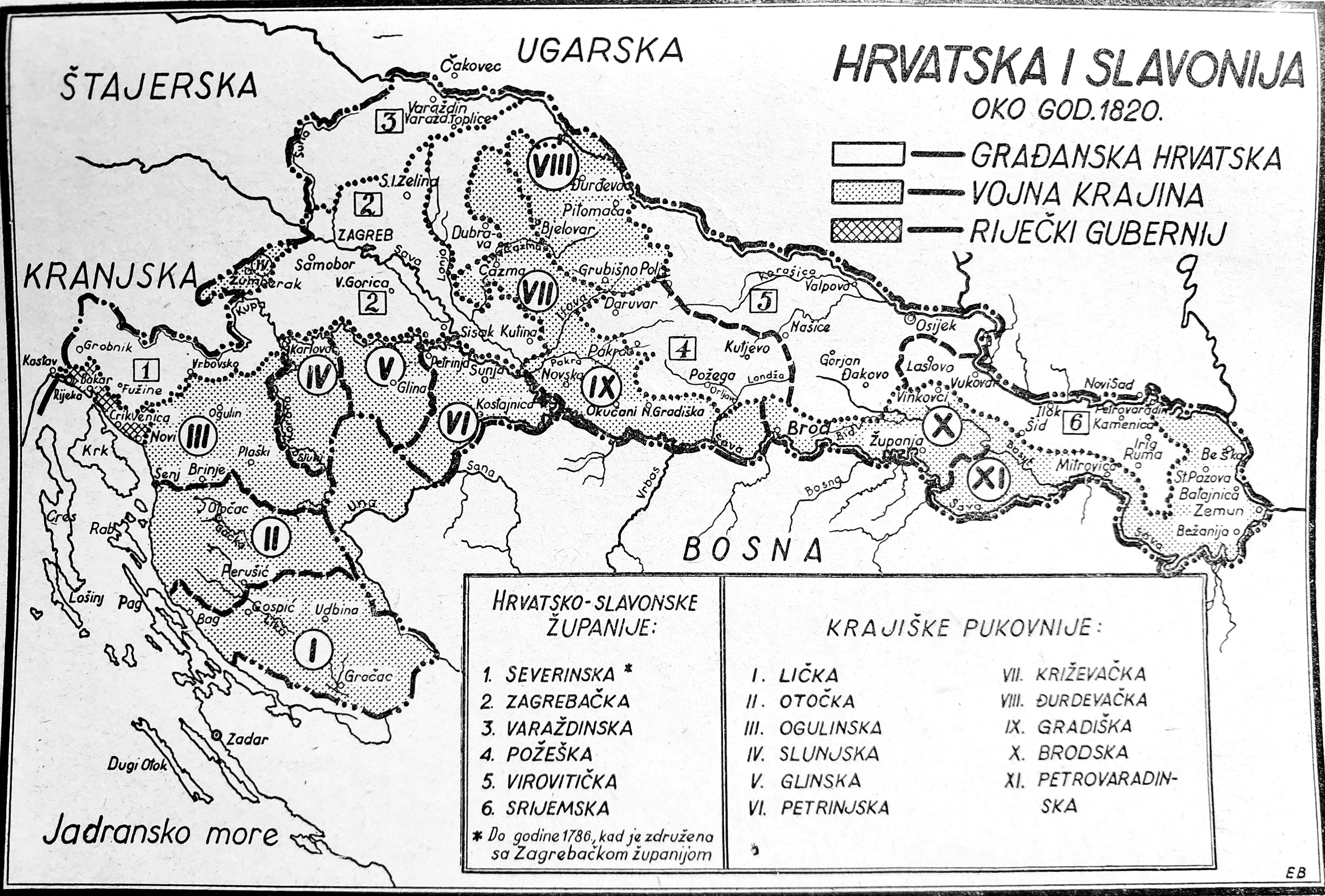 1820. map of Hrvatska and Slavonia